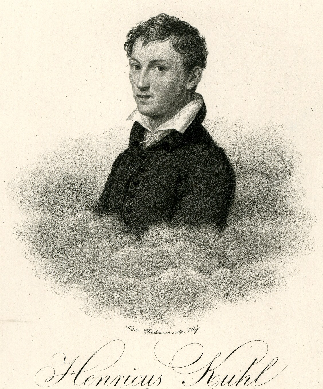 Engraved portrait of Heinrich Kuhl (1797-1821)